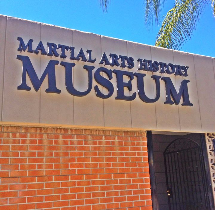 Front view of the exterior of the Martial Arts History Museum in Burbank, CA